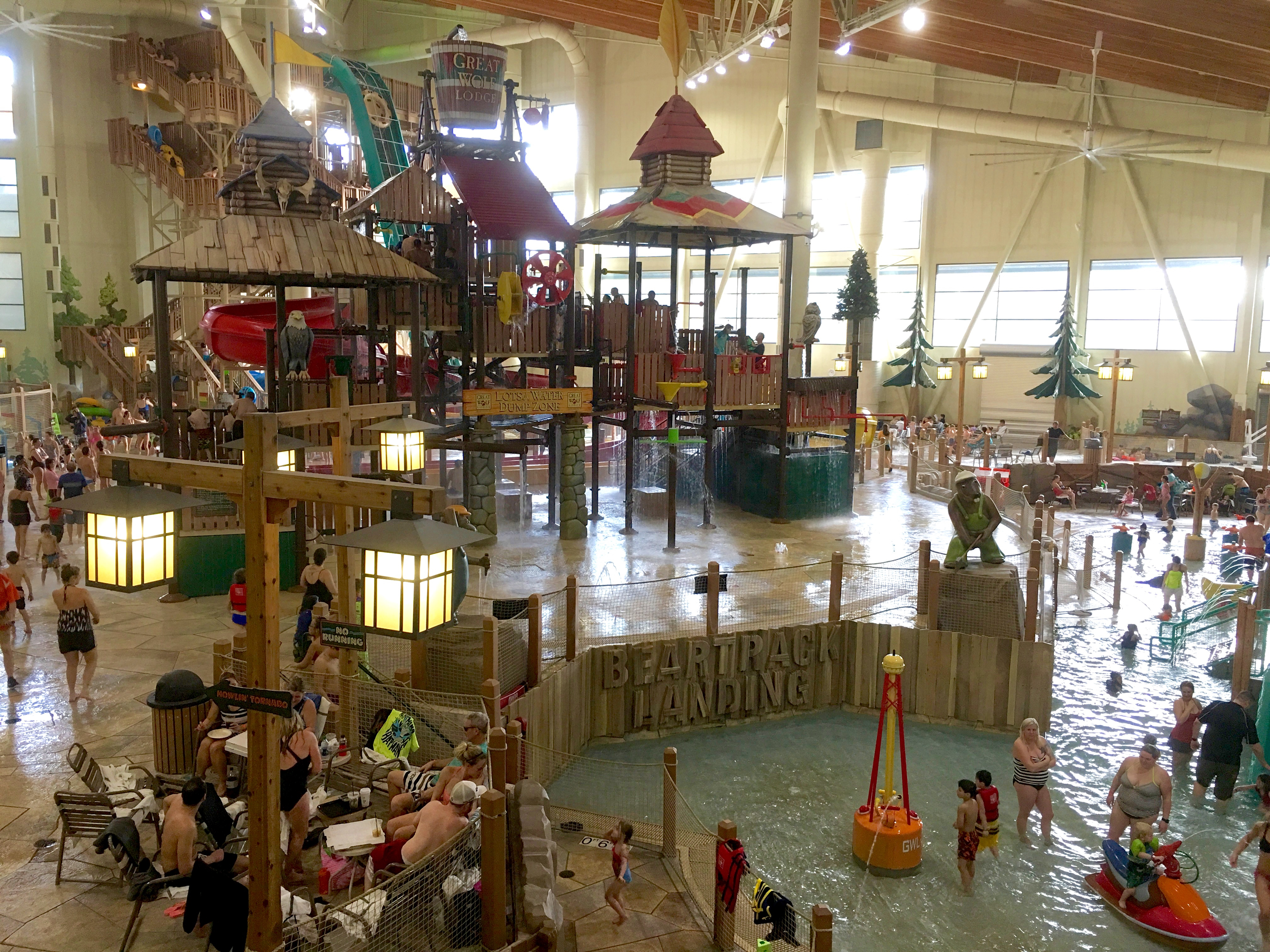 Great Wolf Lodge pool